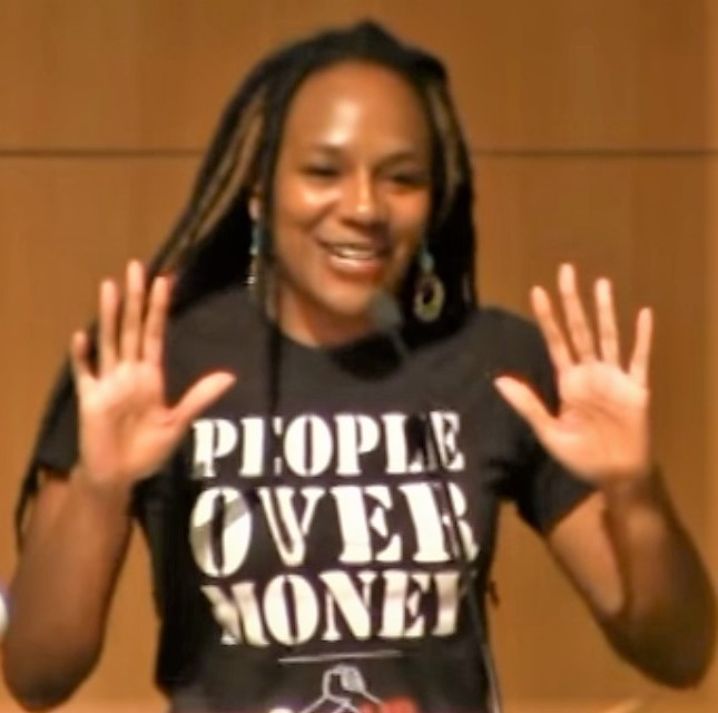 Women Rising Up - Event at NYU Grad Center 9/22/2015 Bree Newsome, Jennicet Gutierrez, Marilyn Zuniga. Women warriors. On July 4th, 2015 Bree Newsome scaled the flagpole on the South Carolina State House grounds and removed the racist symbol of slavery, the Confederate Flag. With the assistance of Black and white comrades, Newsome carried out an act of heroic defiance that resonated to all of us in struggle. Bree Newsome and James Tyson, who assisted her from the ground, were subsequently arrested. Newsome is facing at least three years in jail, if convicted. Activists are demanding that ALL charges be dropped against her.